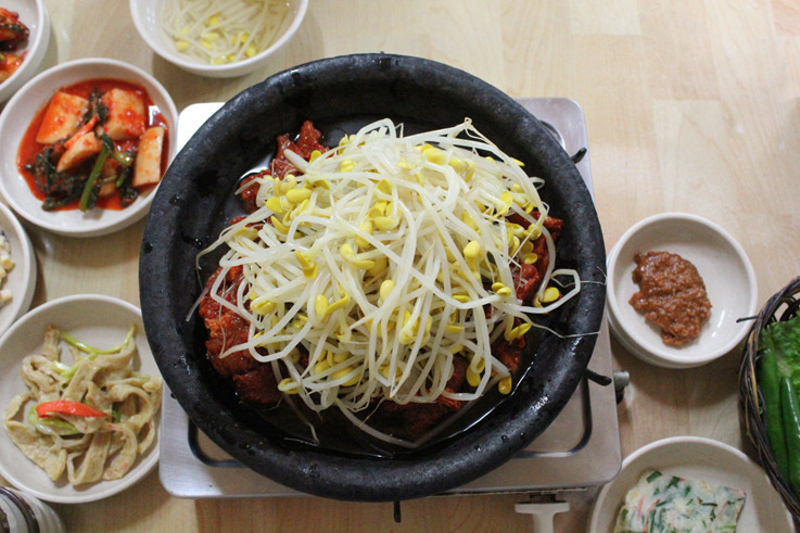 kongnamul bulgogi (marinated pork with soybean sprout)